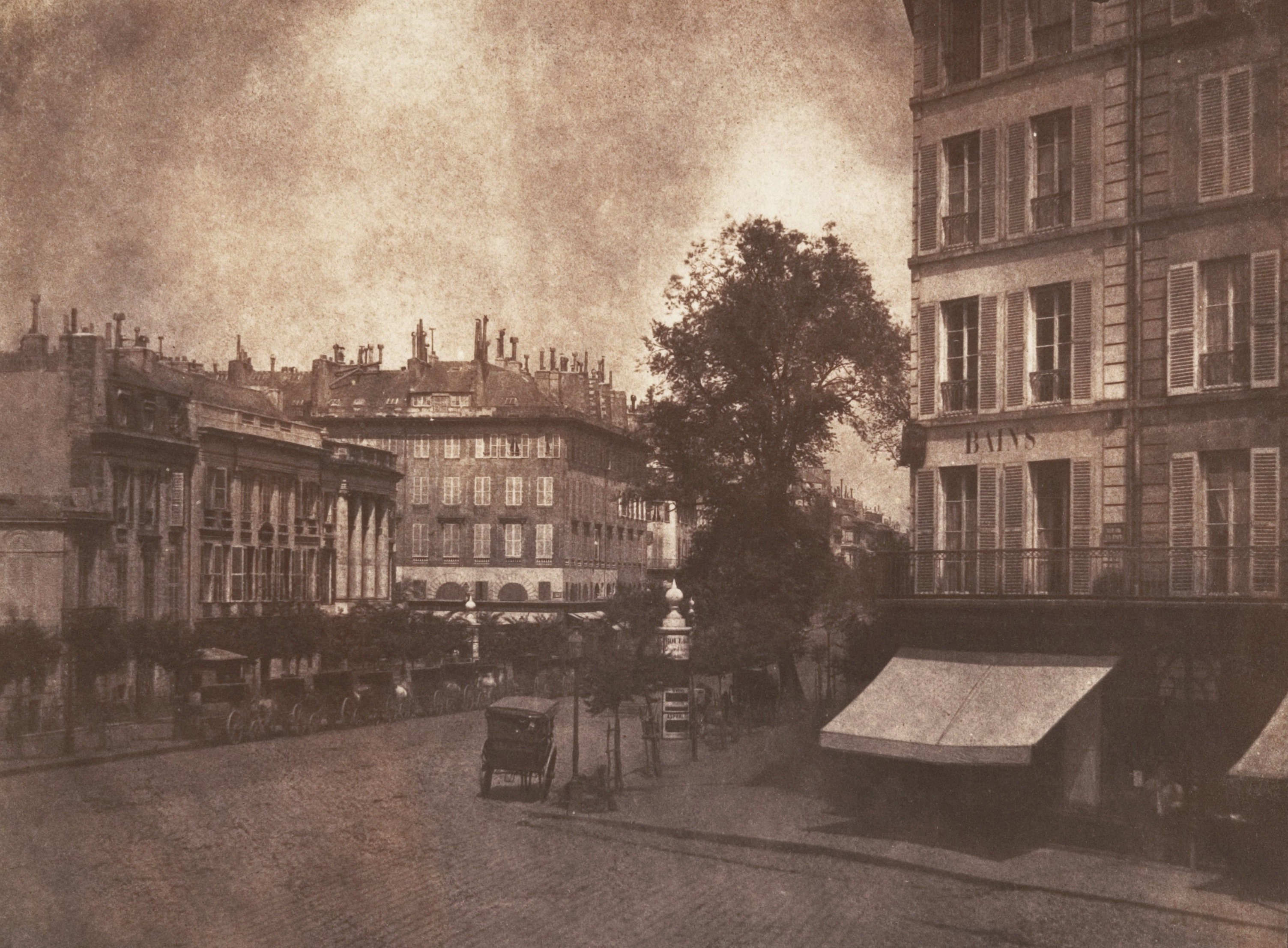 Talbot traveled to Paris in May 1843 to negotiate a licensing agreement for the French rights to his patented calotype process and, with Henneman, to give firsthand instruction in its use to the licensee, the Marquis of Bassano. No doubt excited to be traveling on the continent with a photographic camera for the first time, Talbot seized upon the chance to fulfill the fantasy he had first imagined on the shores of Lake Como ten years before. Although his business arrangements ultimately yielded no gain, Talbot's views of the elegant new boulevards of the French capital are highly successful, a lively balance to the studied pictures made at Lacock Abbey. Filled with the incidental details of urban life, architectural ornamentation, and the play of spring light, this photograph, unlike much of the earlier work, is not a demonstration piece but rather a picture of the real world. The animated roofline punctuated with chimney pots, the deep shopfront awning, the line of waiting horse and carriages, the postered kiosks, and the characteristically French shuttered windows all evoke as vivid a notion of mid-nineteenth-century Paris now as they must have when Talbot first showed the photographs to his friends and family in England. A variant of this scene, taken from a higher floor in Talbot's Paris hotel, appeared as plate 2 in "The Pencil of Nature."